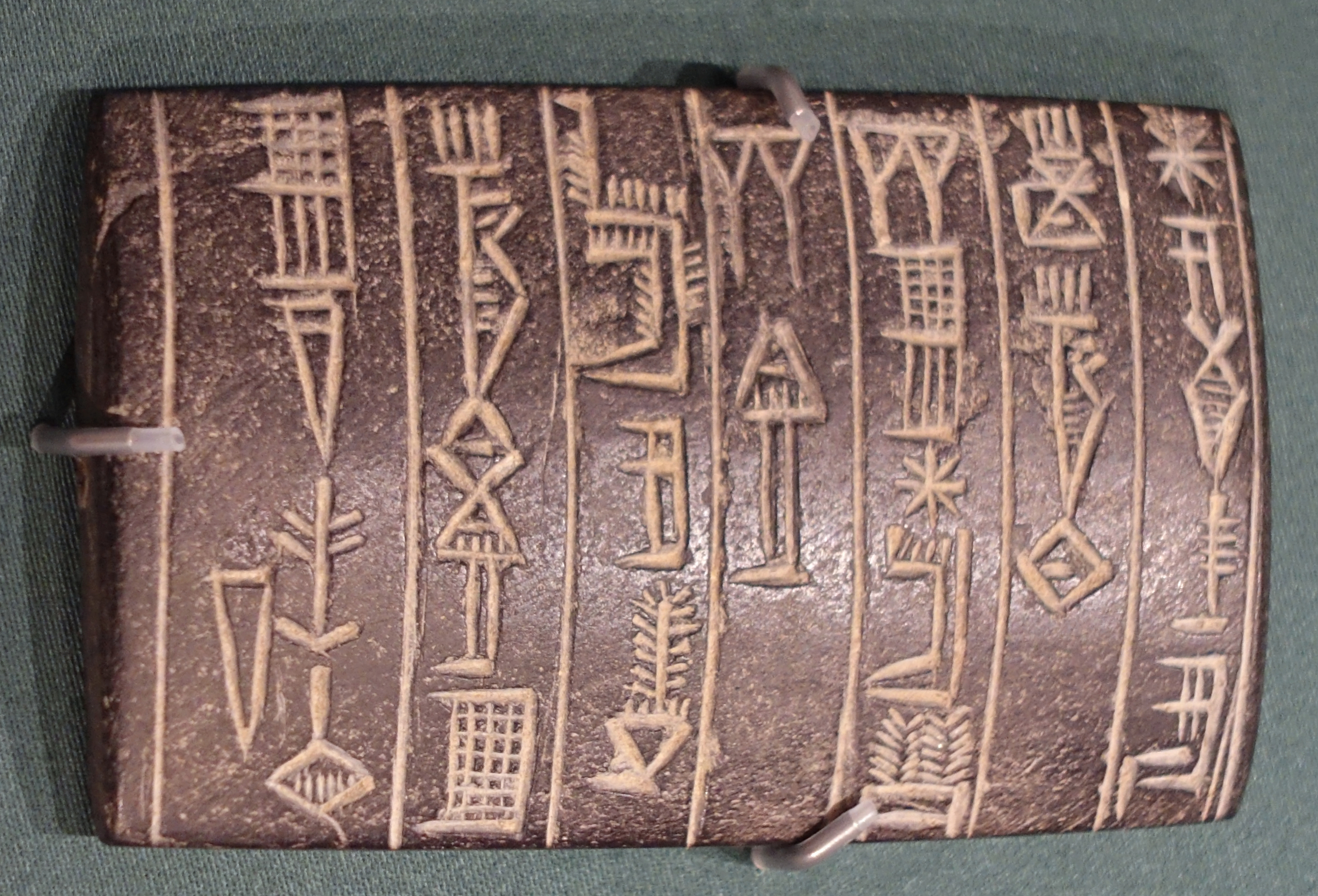 Stone tablet re Il, king of Umma, c. 2400 BC - Oriental Institute Museum, University of Chicago - DSC07155 (orientation)